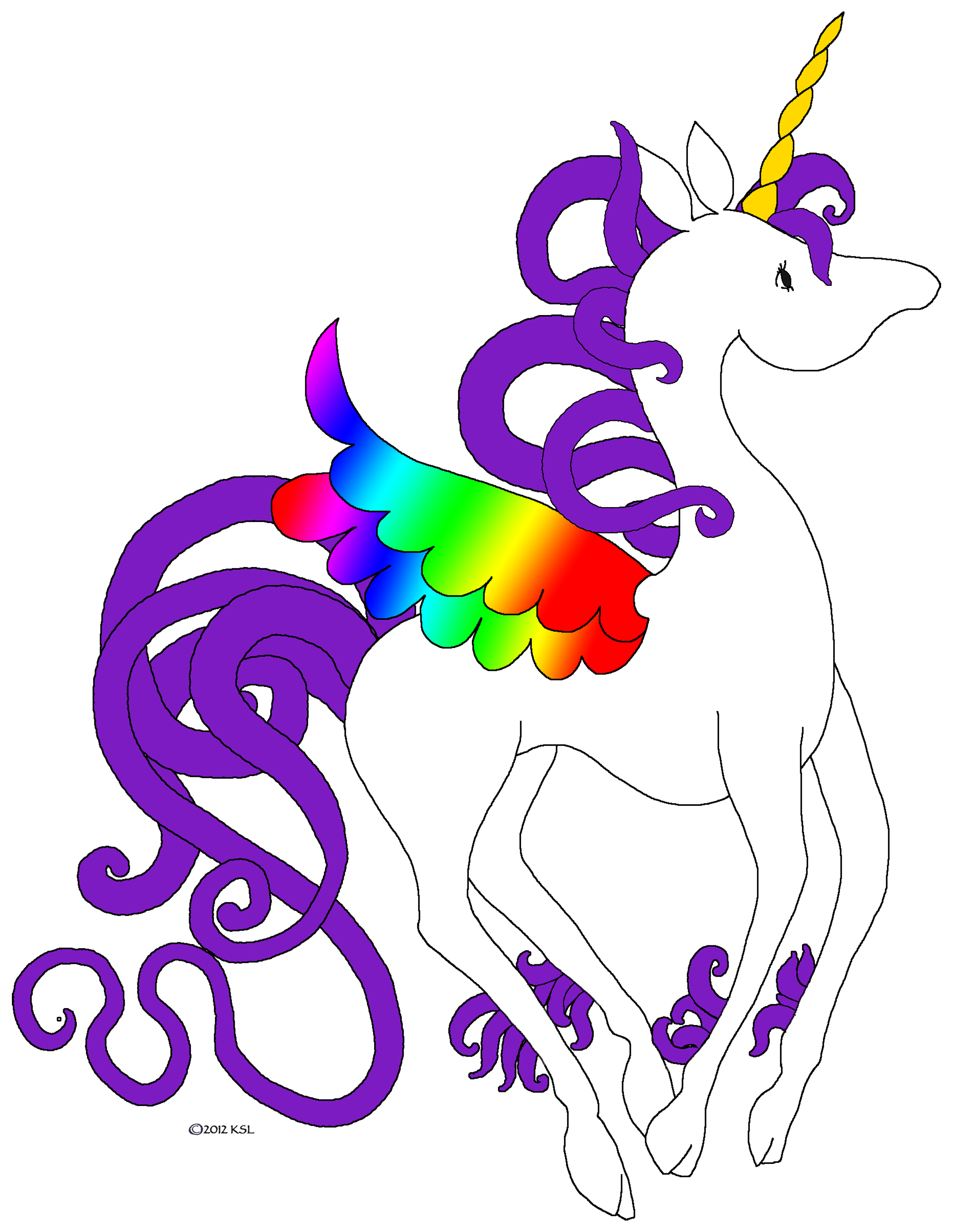 Winged Unicorn